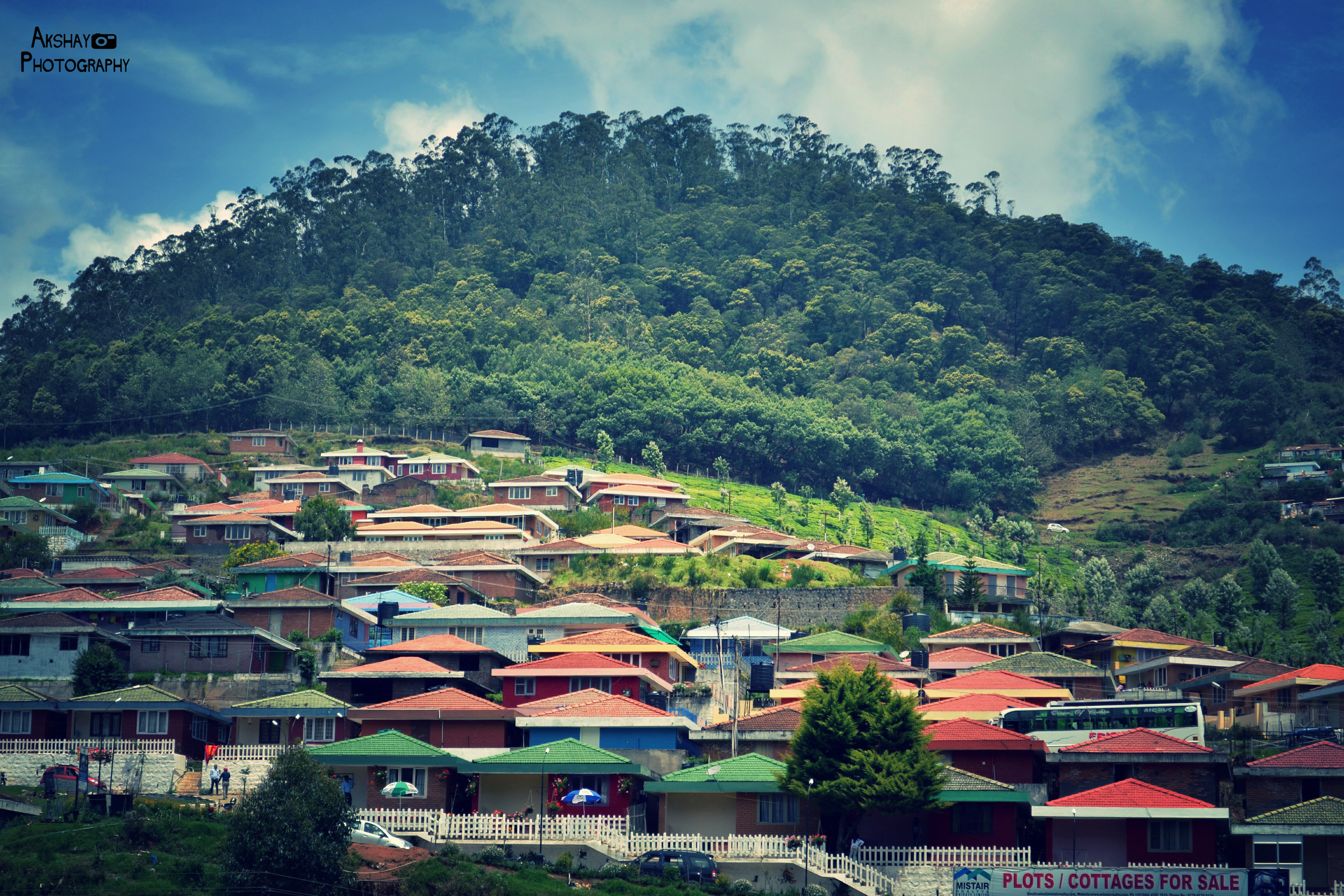 This image was captured at ooty, it is a hill station in tamilnadu state & close to mysore district in Karnataka. It is famous for its cold climatic conditions & a famous tourist destination in southern India. Captured with Nikon D3100.